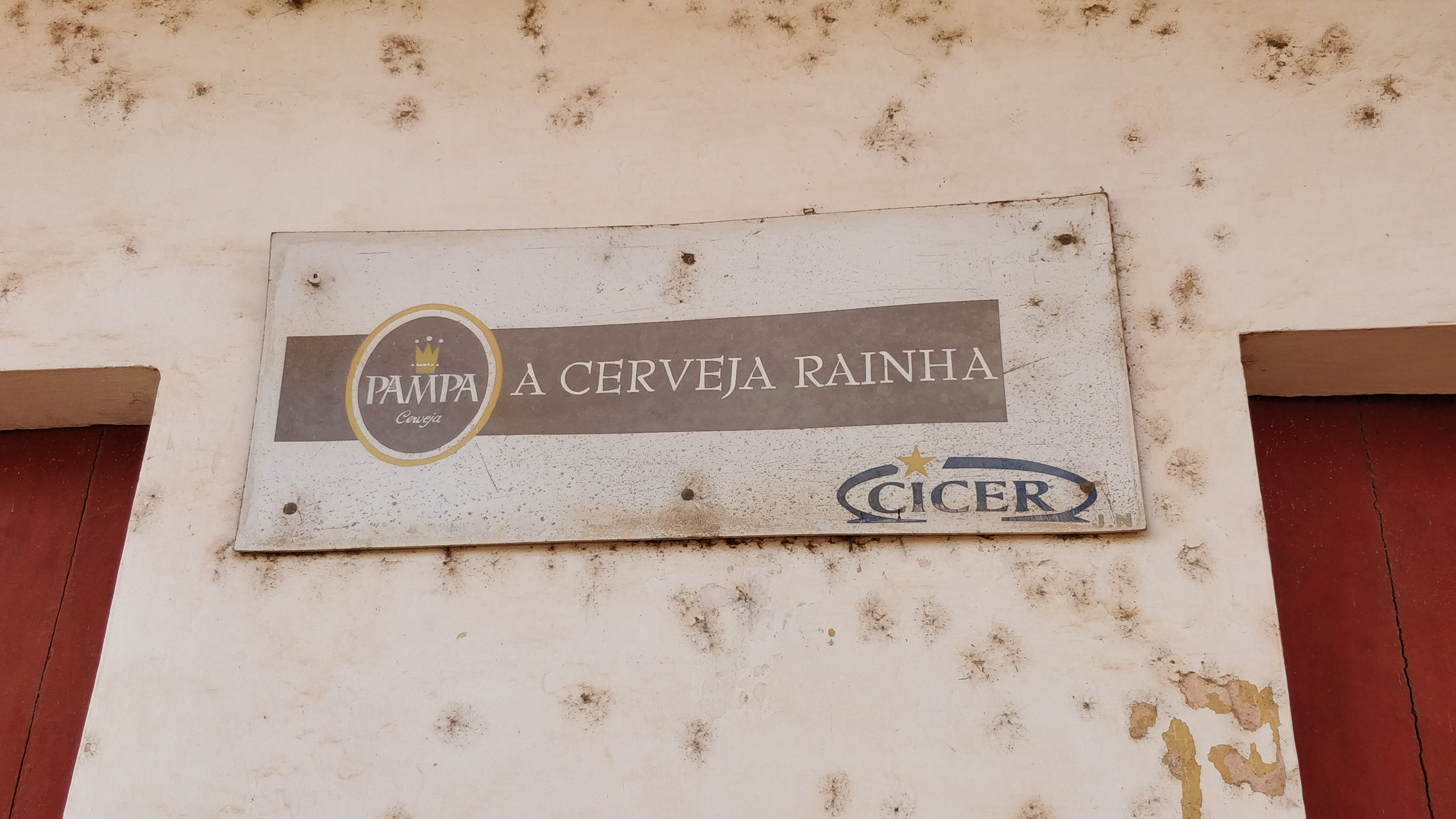 Sign with "Cerveja Pampa" advertisement